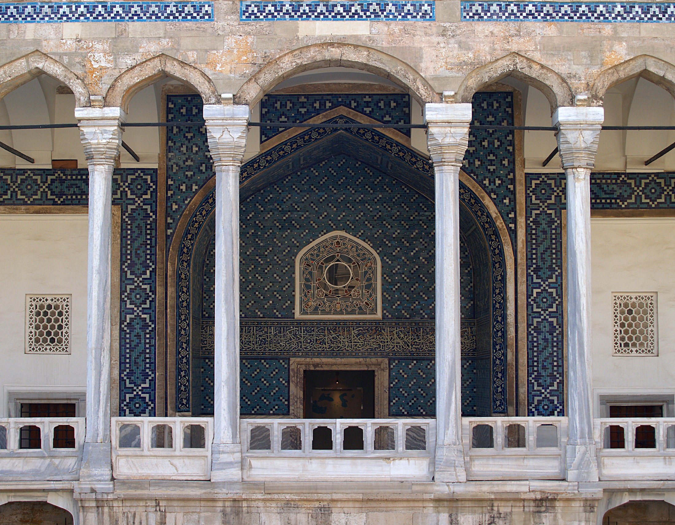 Tiled Kiosk, main door